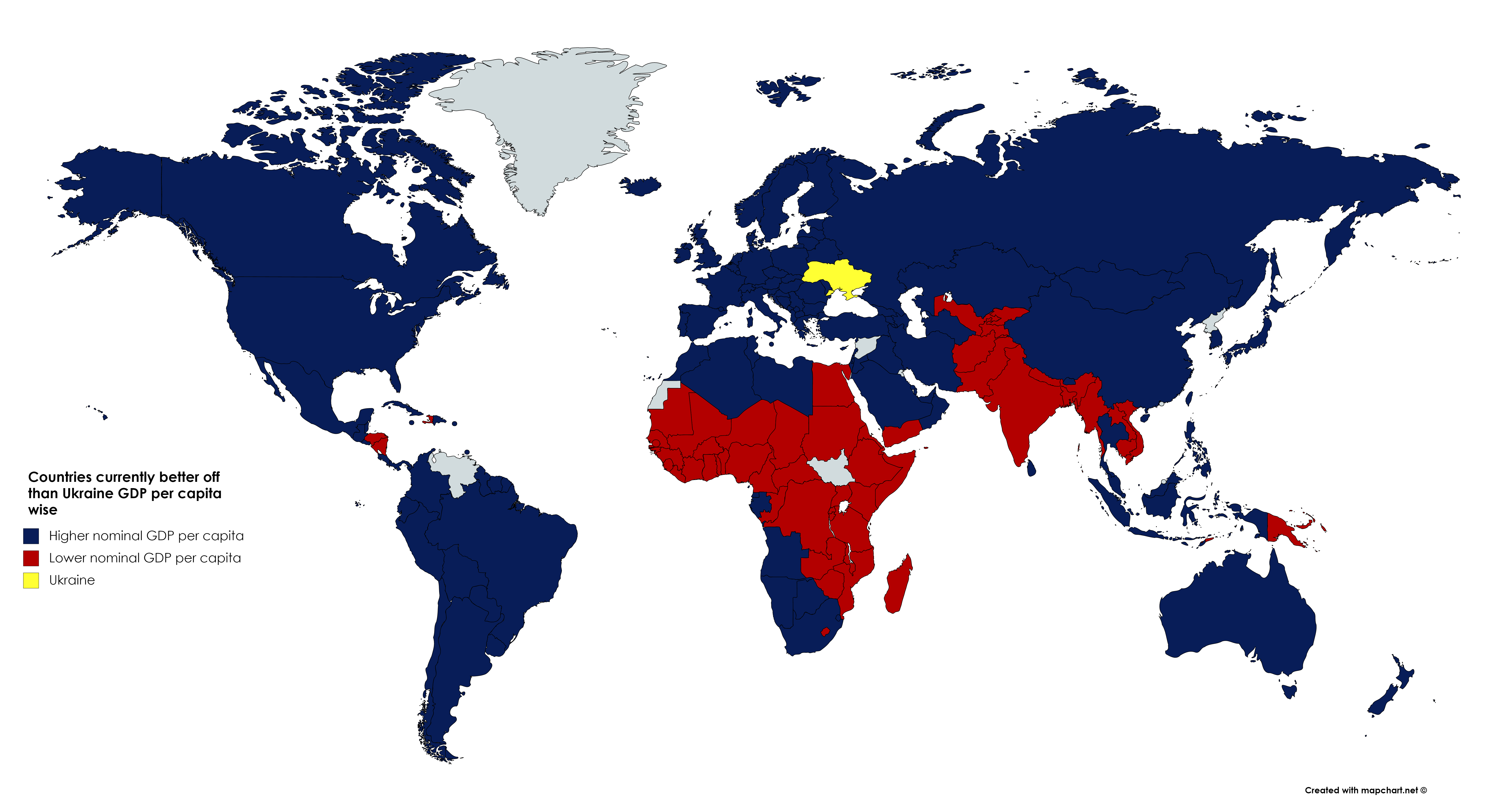 GDP per capita (Ukraine) in 2018